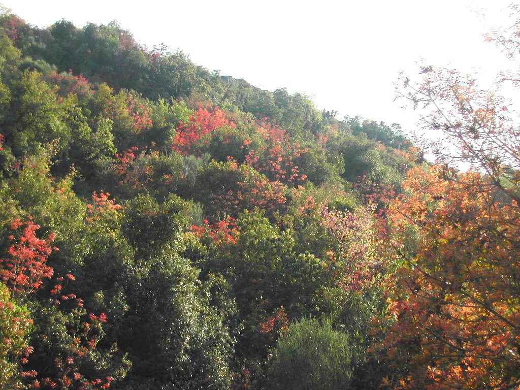 Mediterranean woodland (Hebrew: Horesh), Mount Meron, Upper Gallilee, Israel. Faeturing in red: Pistacia terebinthus subsp. palaestina trees in flower.